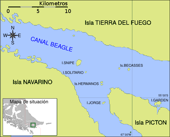 Location of the Snipe Island at the east side of the Beagle channel